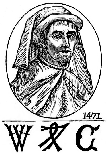 William Caxton - The first printer at Westminster.